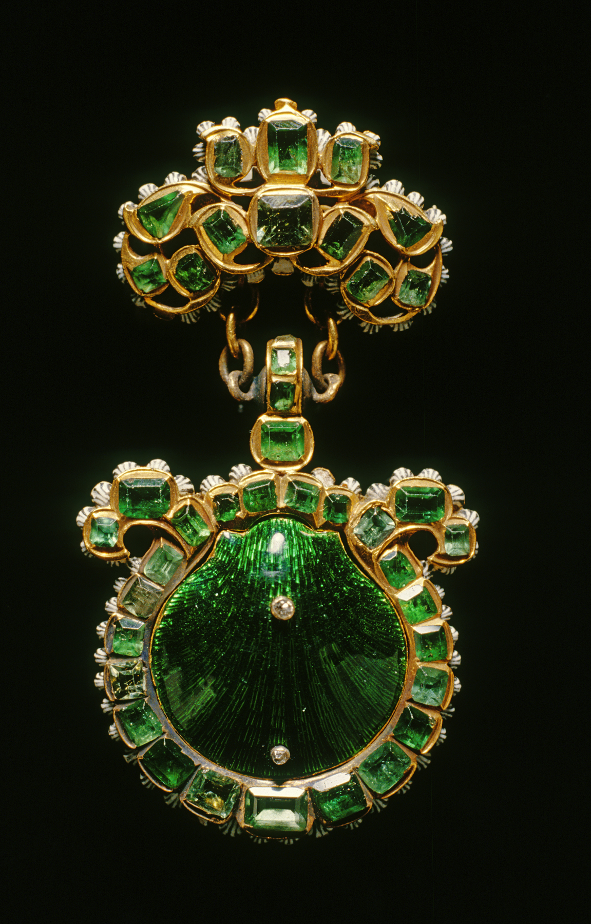 The religious Order of St. James (Sant Iago) was a military order established in 1171 at the pilgrimage cathedral of Santiago de Compostela in Spain to protect it from attacks by Muslims. Pilgrims to the church frequently ate scallops and attached the empty shells to their hats. Members of the order adopted the scallop shell as their badge.